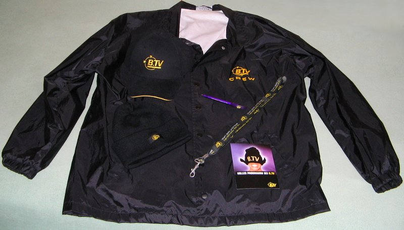 Some merchandising-goods of B.TV: cagoule "B.TV Crew", baseball-cap "B.TV", woolen hat "B.TV", lanyard keychain "B.TV Neues Fernsehen braucht das Land", ballpen "B.TV Neues Fernsehen braucht das Land", flyer "Volles Programm bei B.TV". Missing: small bag with jellybears.